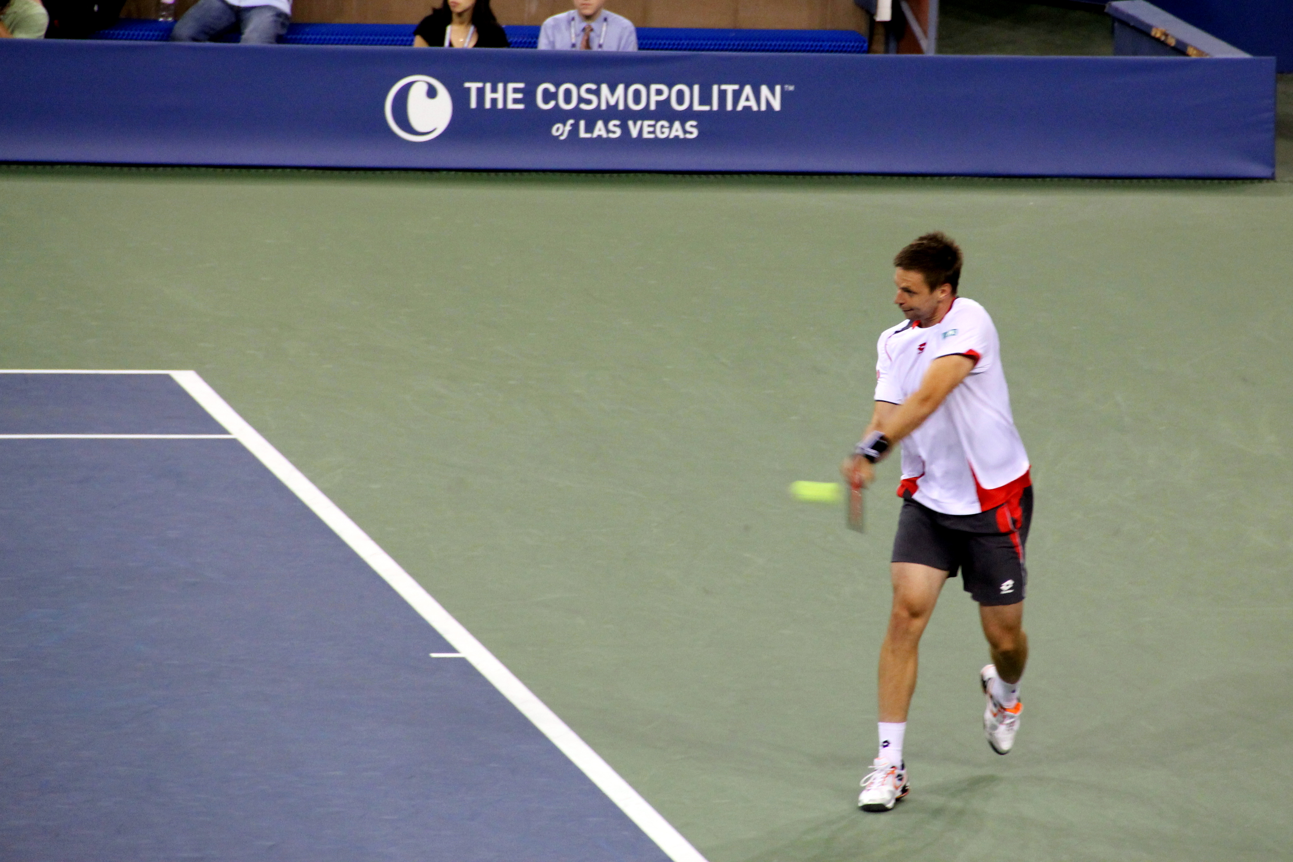 Robin Soderling on Wednesday night at the US Open where he lost against Roger Federer. The Cosmopolitan is in New York for the 2010 US Open, inviting attendees and guests to experience signature views from our Overlook and in our custom designed suite with prime-stadium seating. For more information on The Cosmopolitan visit